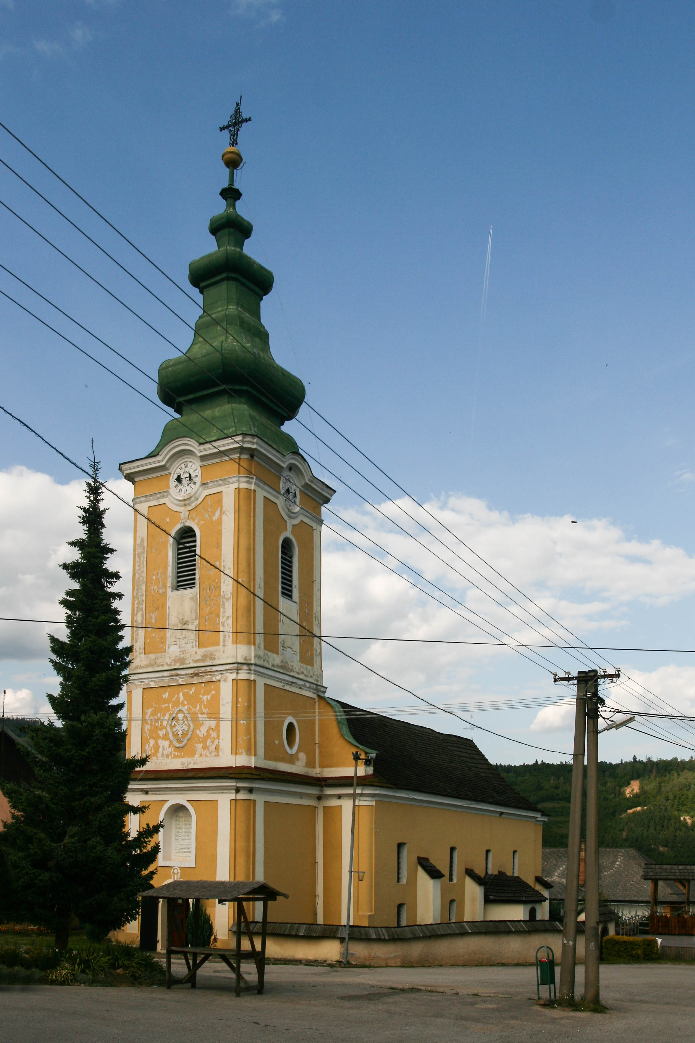 Lutheran church in Rejdová, Slovakia.